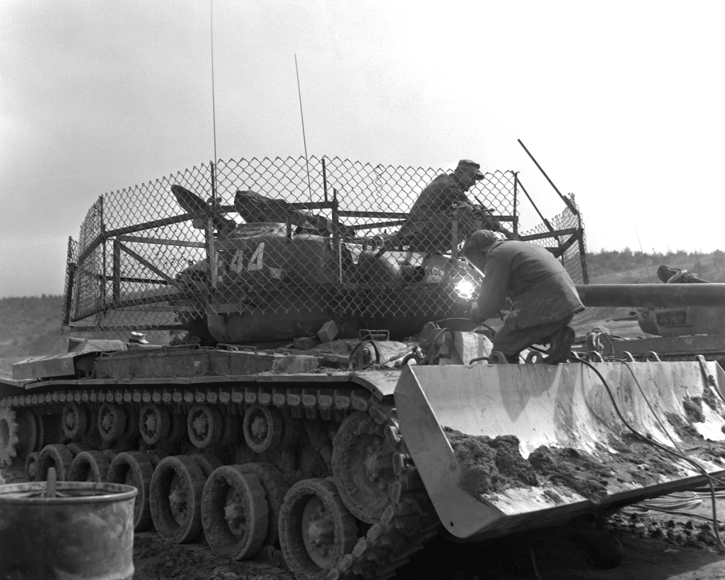 Operation / Series: KOREAN WAR Looking from the left front at a M-46 tank dozer of Dog Company, 1st Tank Battalion, with a wire fence cage around the turret, which was designed to explode 3.5 rockets the enemy is firing before they hit the tank. The wire fence turns with the turret. NARA FILE #: 127-GK-234D-A170228